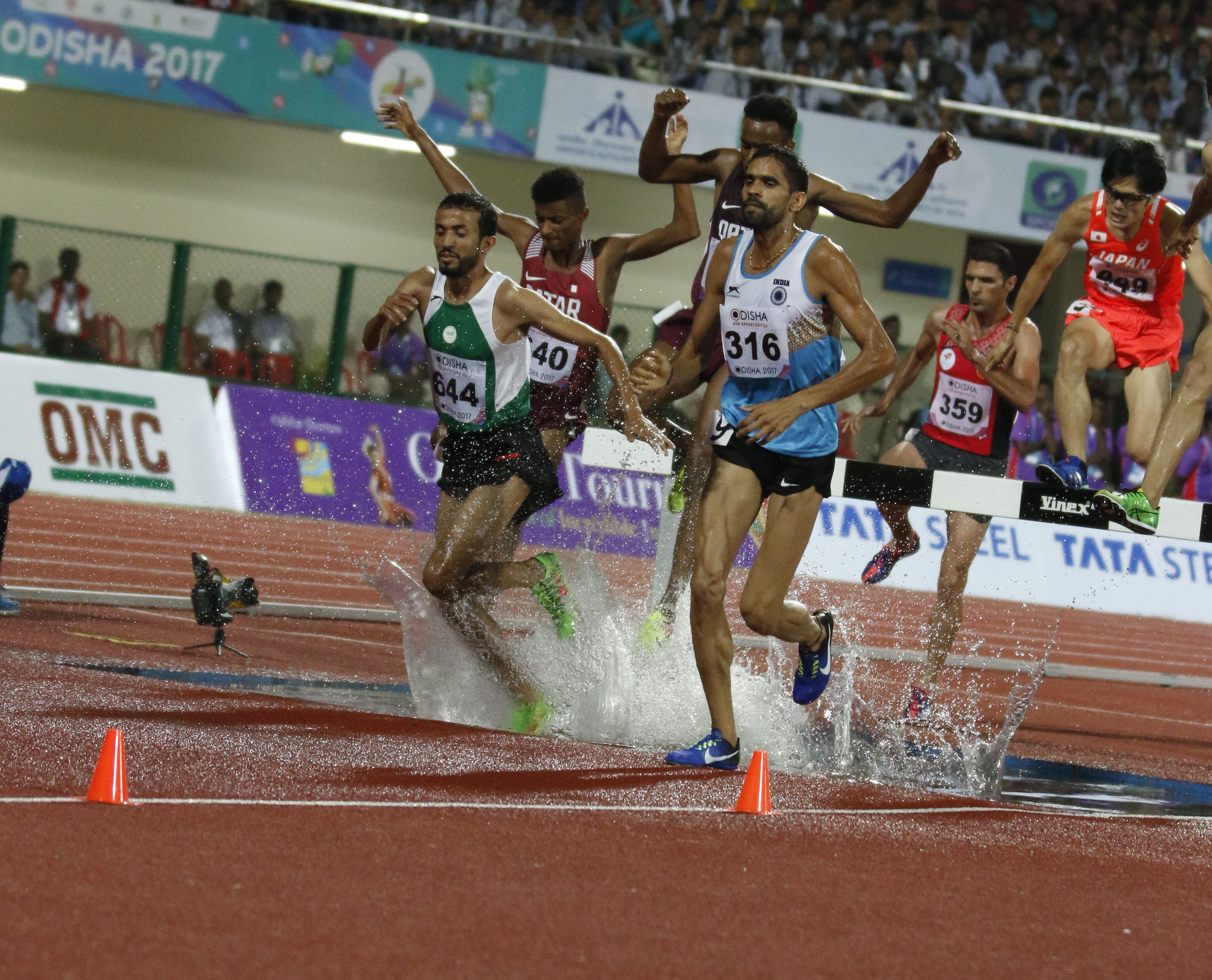 Athletes during 22nd Asian Athletics Championships in Bhubaneswar.